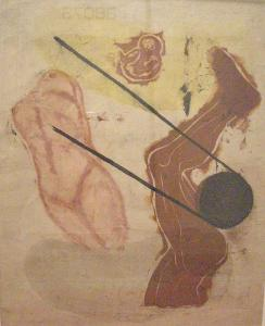 Painting Allegory of family